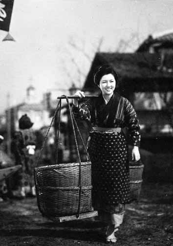 Hideko Takamine in 1949 Japanese movie Haru no Tawamure(Spring Play).